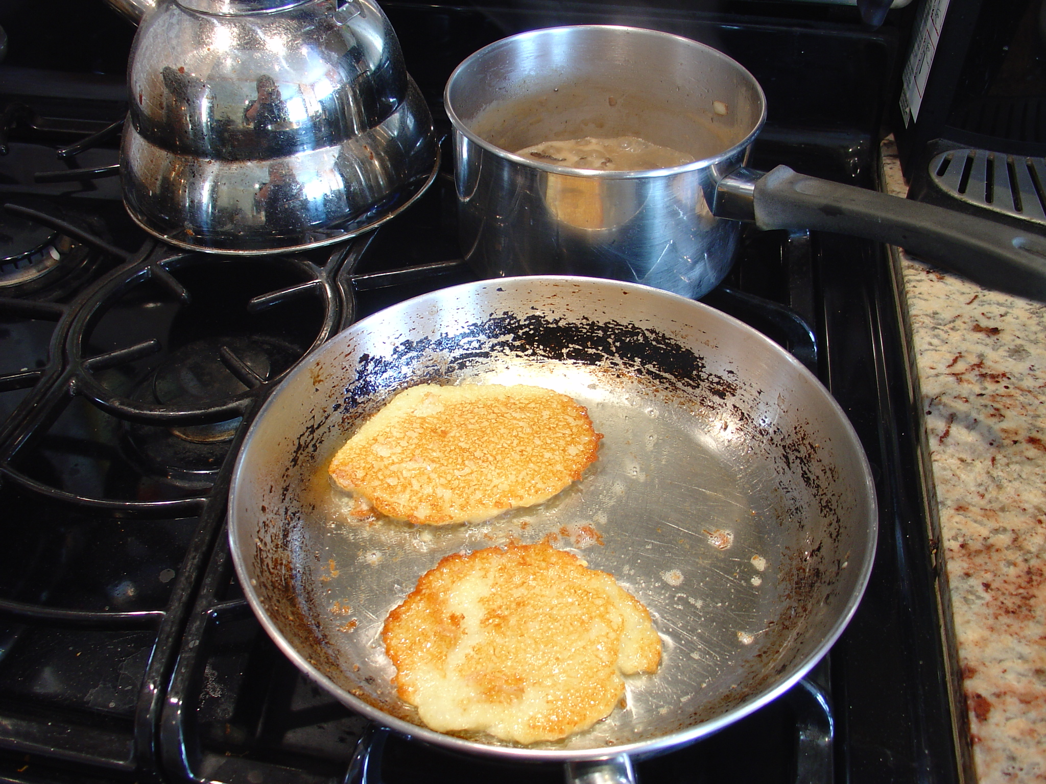 Potato pancakes